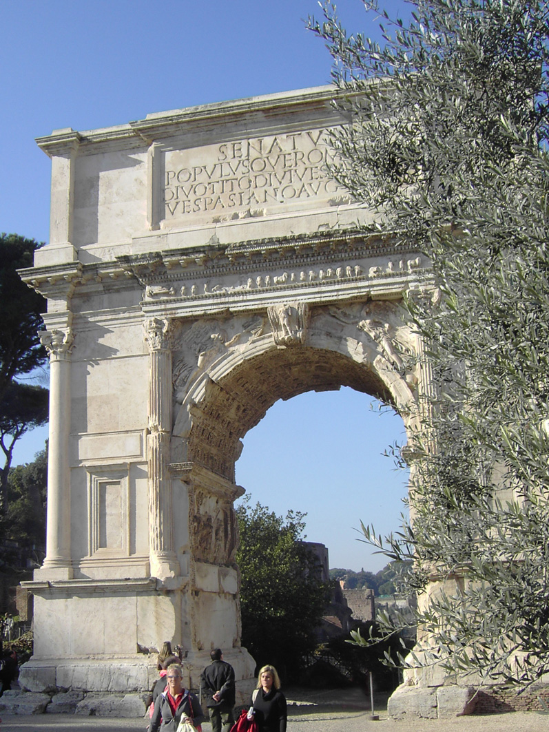 Rome, Arch of Titus.